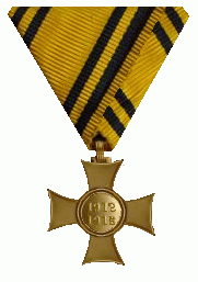 Mobilisation Cross 1912 1913